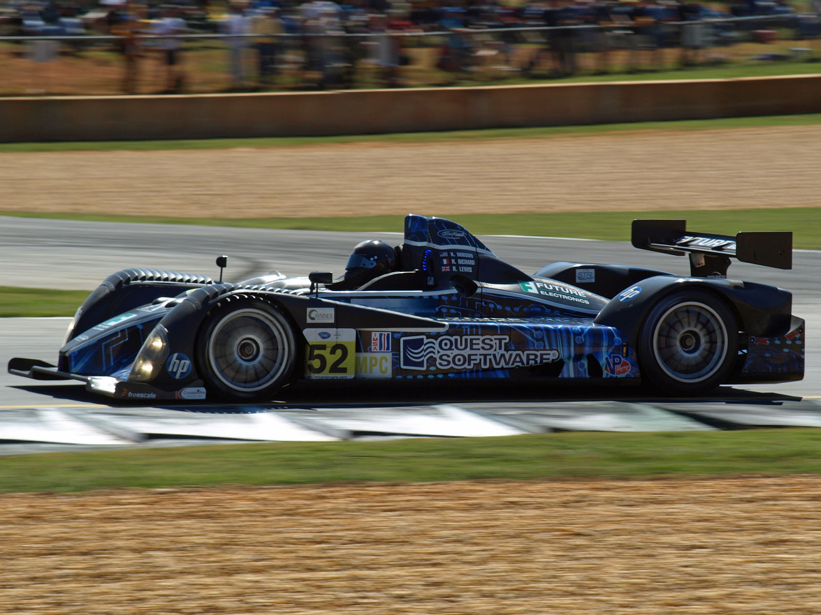 Ryan Lewis driving the PR1 Mathiasen Motorsports Oreca FLM09-Chevrolet in the 2011 Petit Le Mans at Road Atlanta.